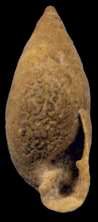 Apertural view of the shell of Cortana carvalhoi (Brito,1967). Shell length: 30.5 mm.